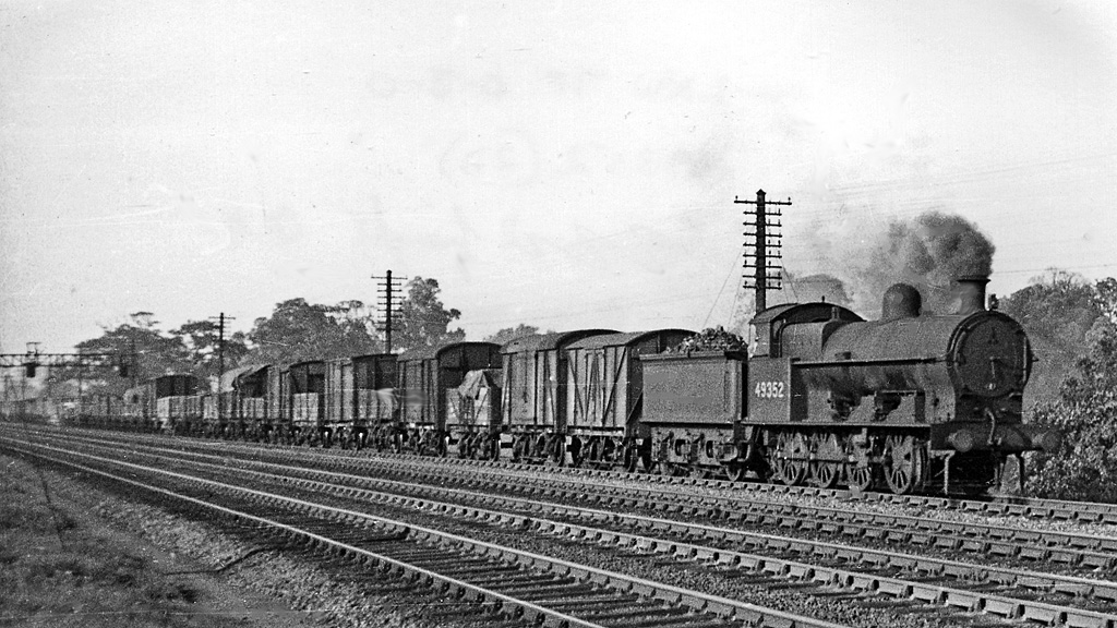 Up freight on West Coast Main Line approaching Linslade Tunnel. View northward, towards Bletchley on ex-L0ndon & North Western WCML. The Class H freight is on the Up Slow, headed by one of the numerous LNW 0-8-0s, Class G2a No. 49352.